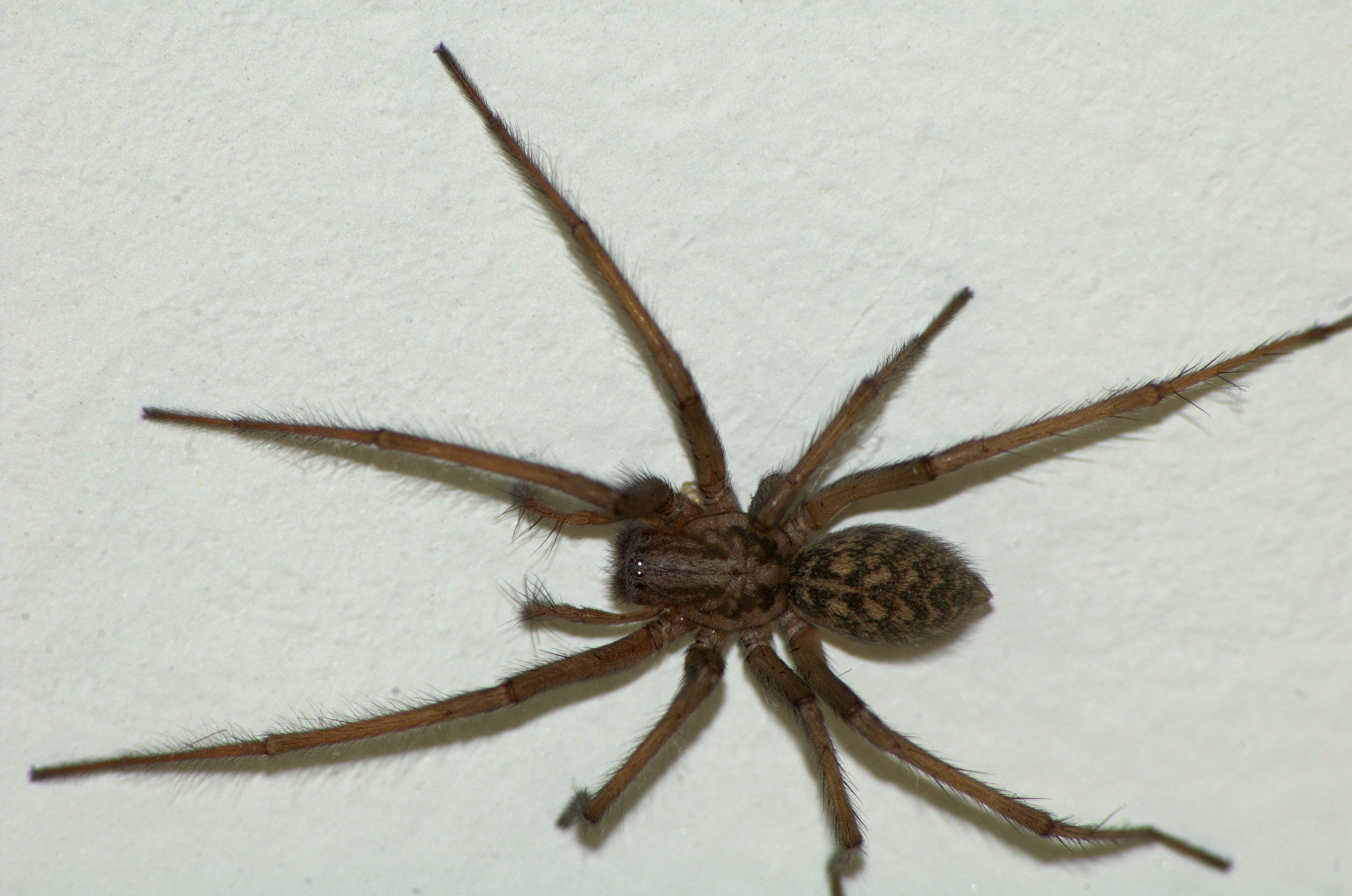 Tegenaria domestica on ceiling, top view